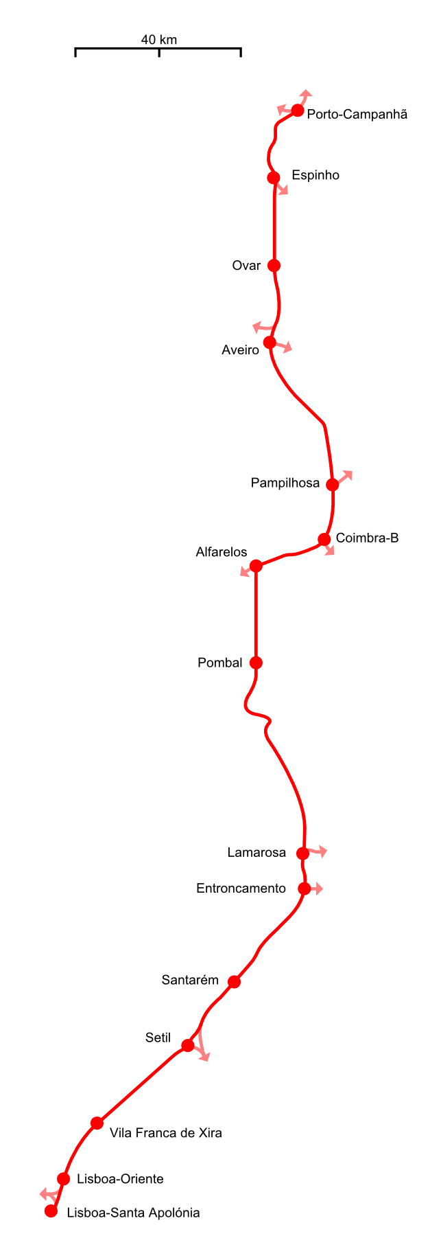 Map of the Nothern line(Portugal).